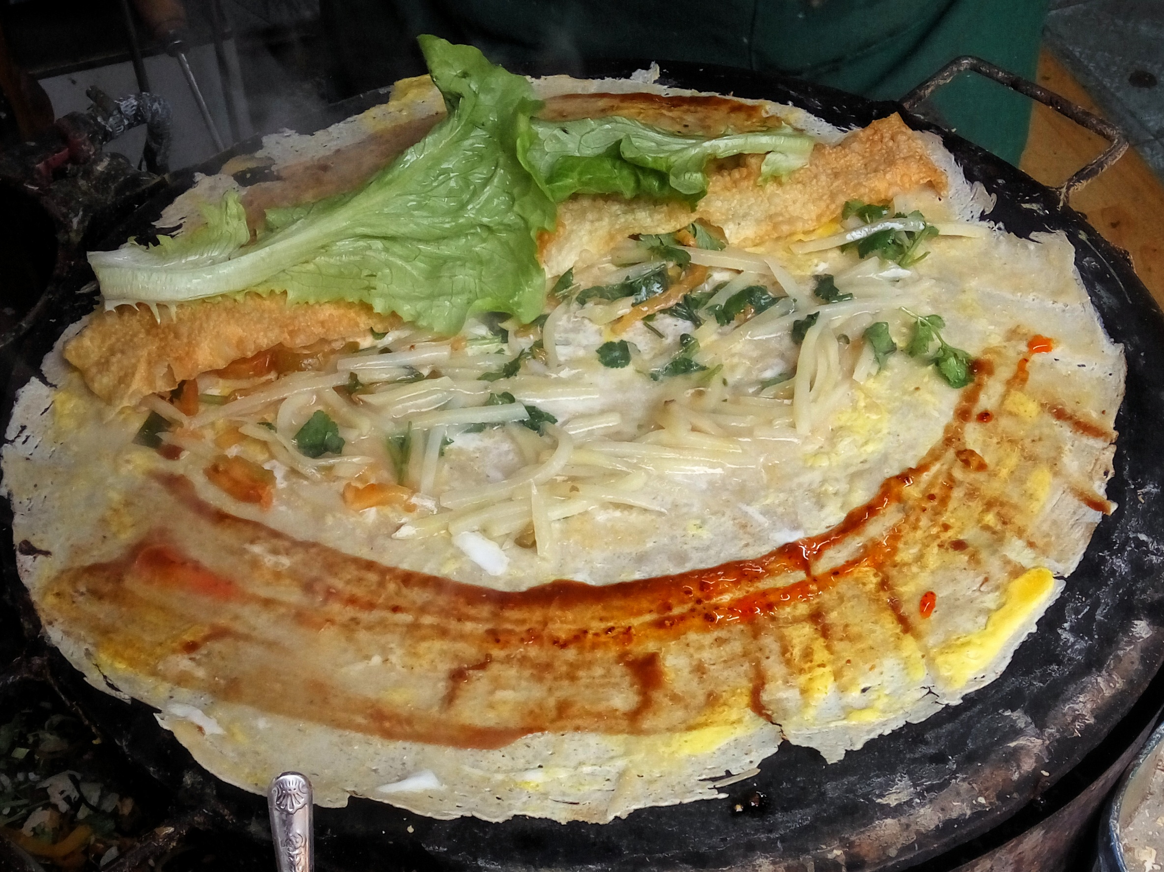 An unwrapped jianbing with lettuce, potato strips, seaweed strips, baocui, cilantro, green onions, egg, and flour mix being prepared on the street in Nanjing, China.